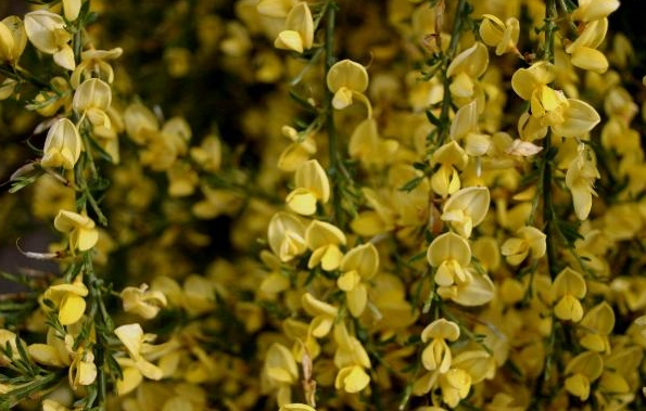 Cytisus × praecox: Flowers